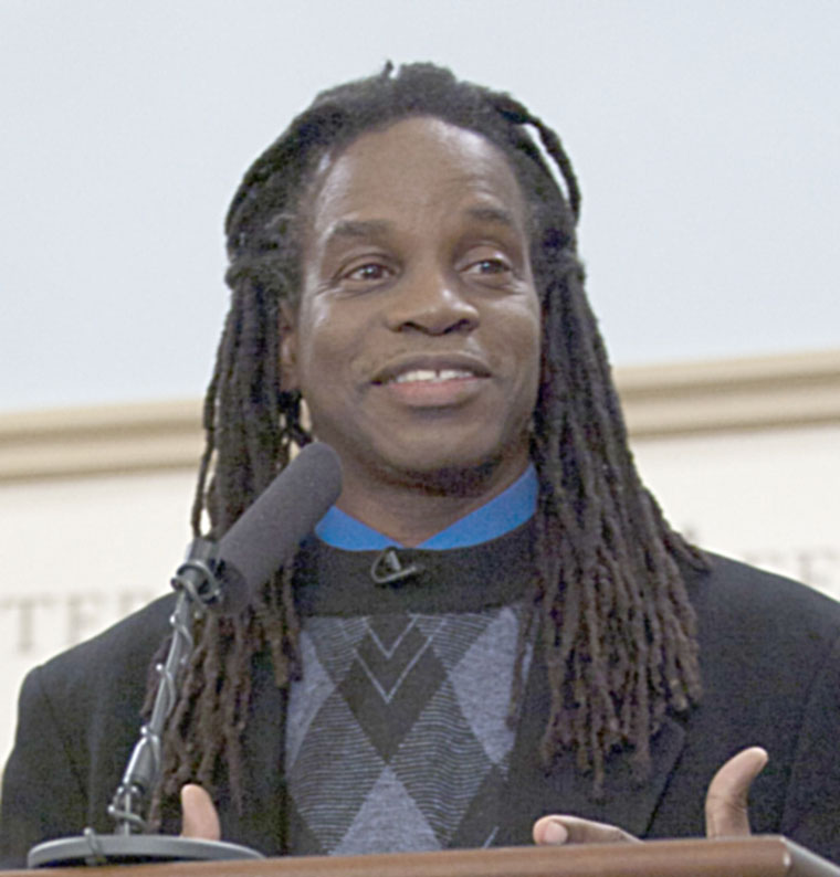 Clarence Lusane is an associate professor of Political Science in the School of International Service at American University where he teaches and researches on international human rights, comparative race relations, social movements and electoral politics. He is also an author, activist, scholar, lecturer, and journalist.